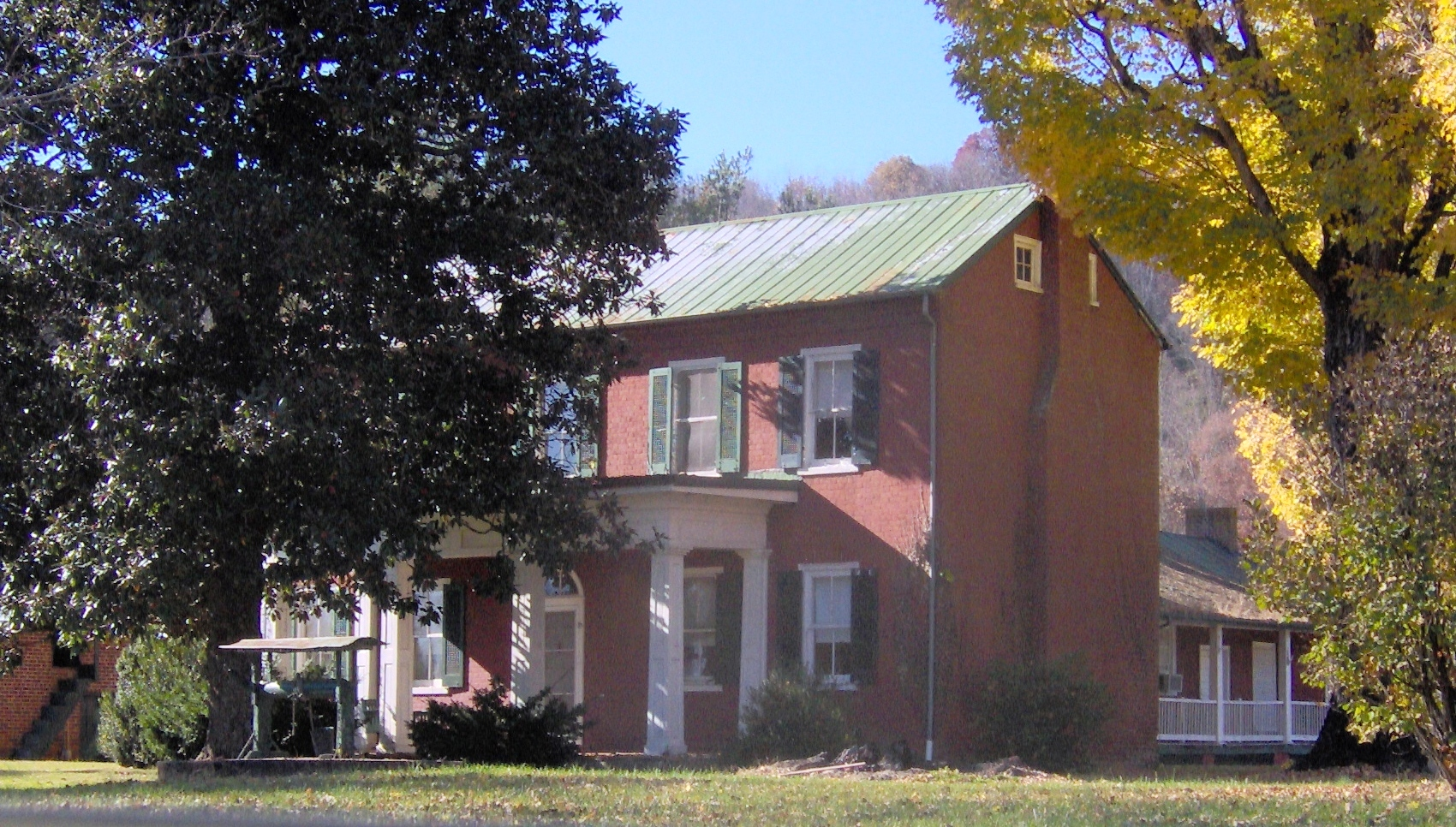 The Henry and Peter Earnest House in Greene County, Tennessee, USA. The house, part of the Earnest Farms Historic District, was originally built in the early 1800s, although additions have been made over the years. Coordinates: N 36.20383, W 82.68258